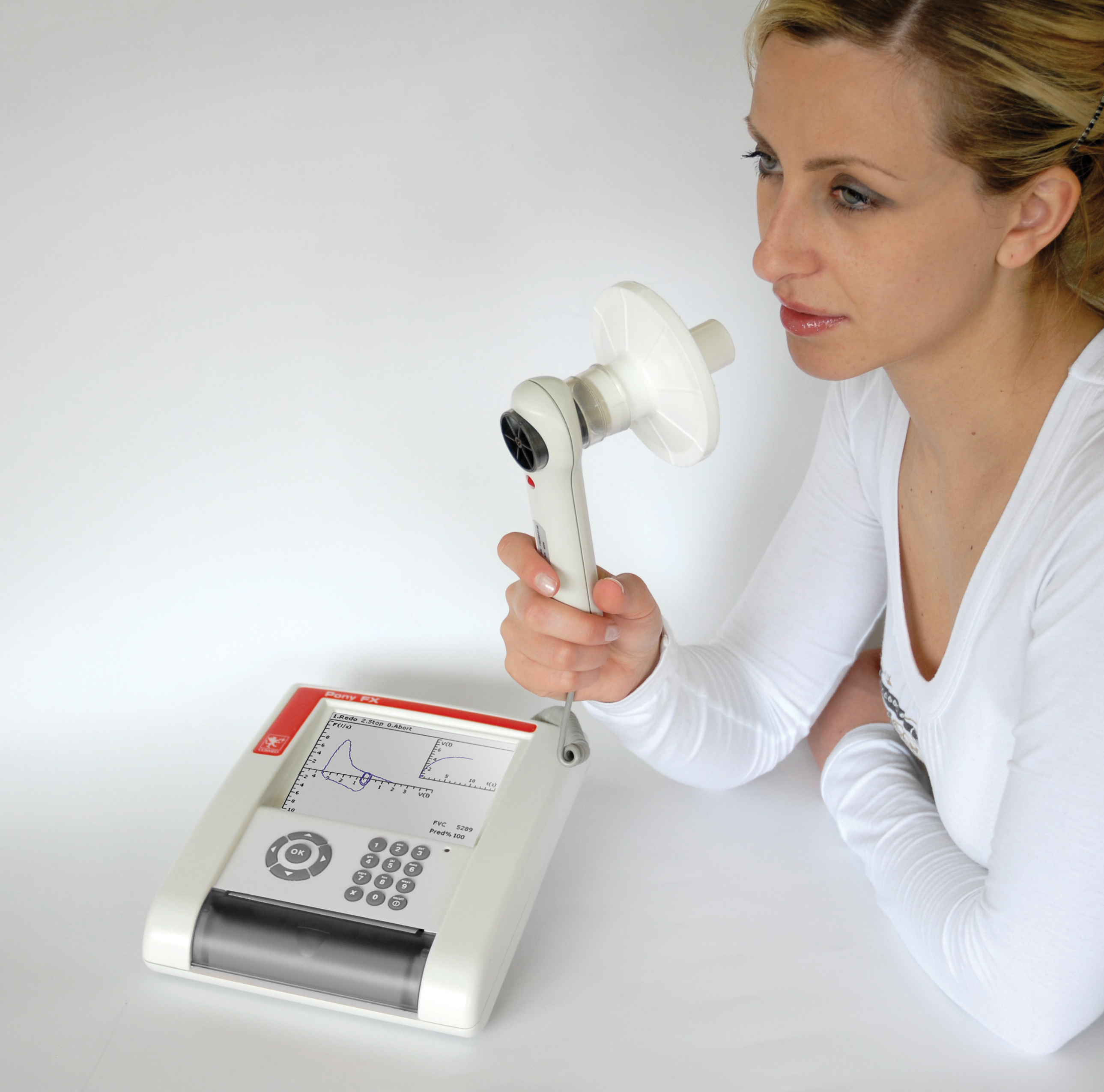 Desktop spirometer by COSMED (